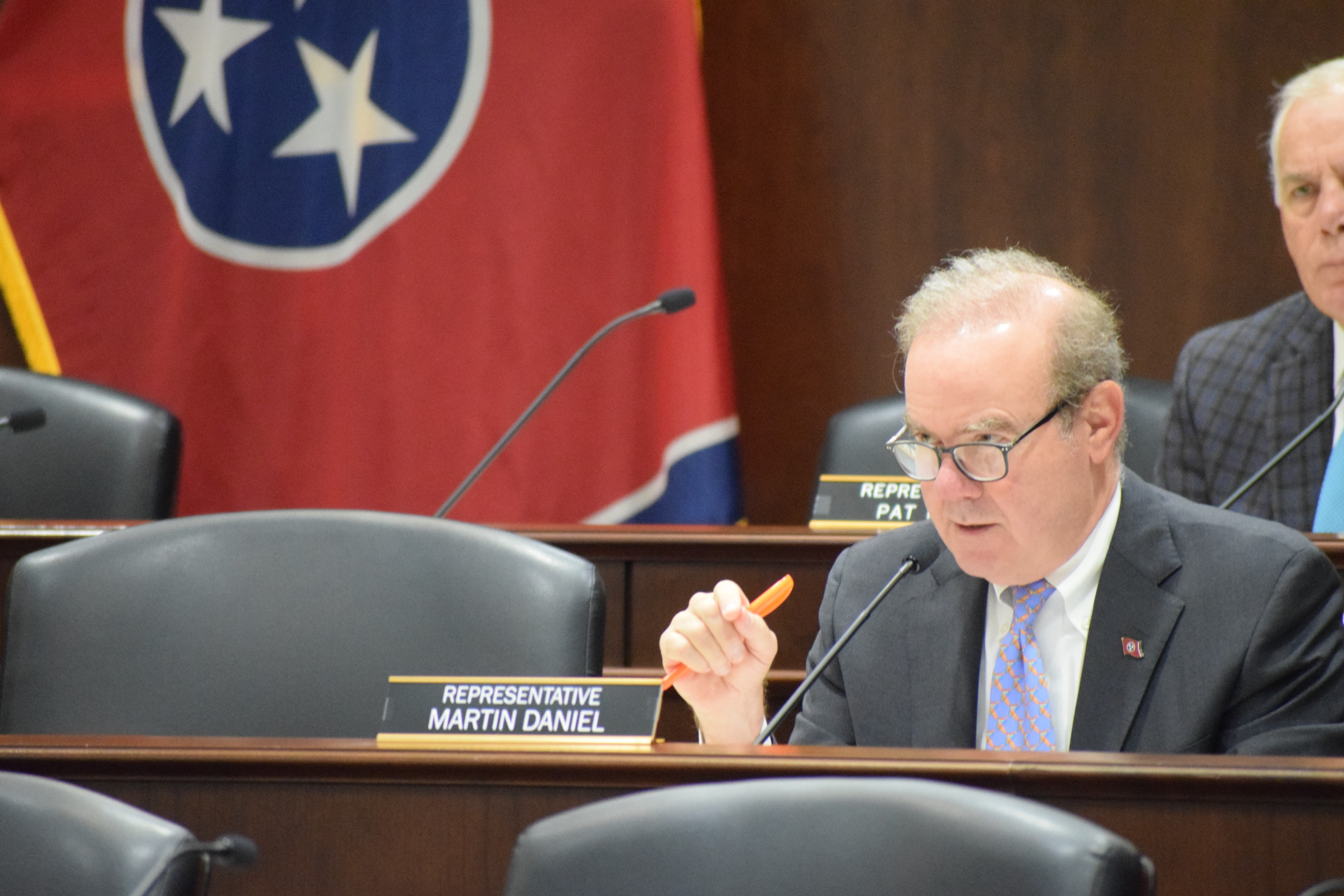 Chairman Martin Daniel leading a line of questioning in a Government Operations meeting.